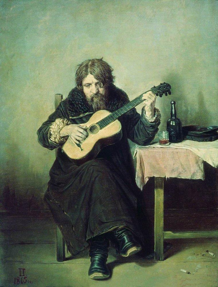 Man in a long coat sits by a table playing the guitar. On the table stand a bottle and a glass.